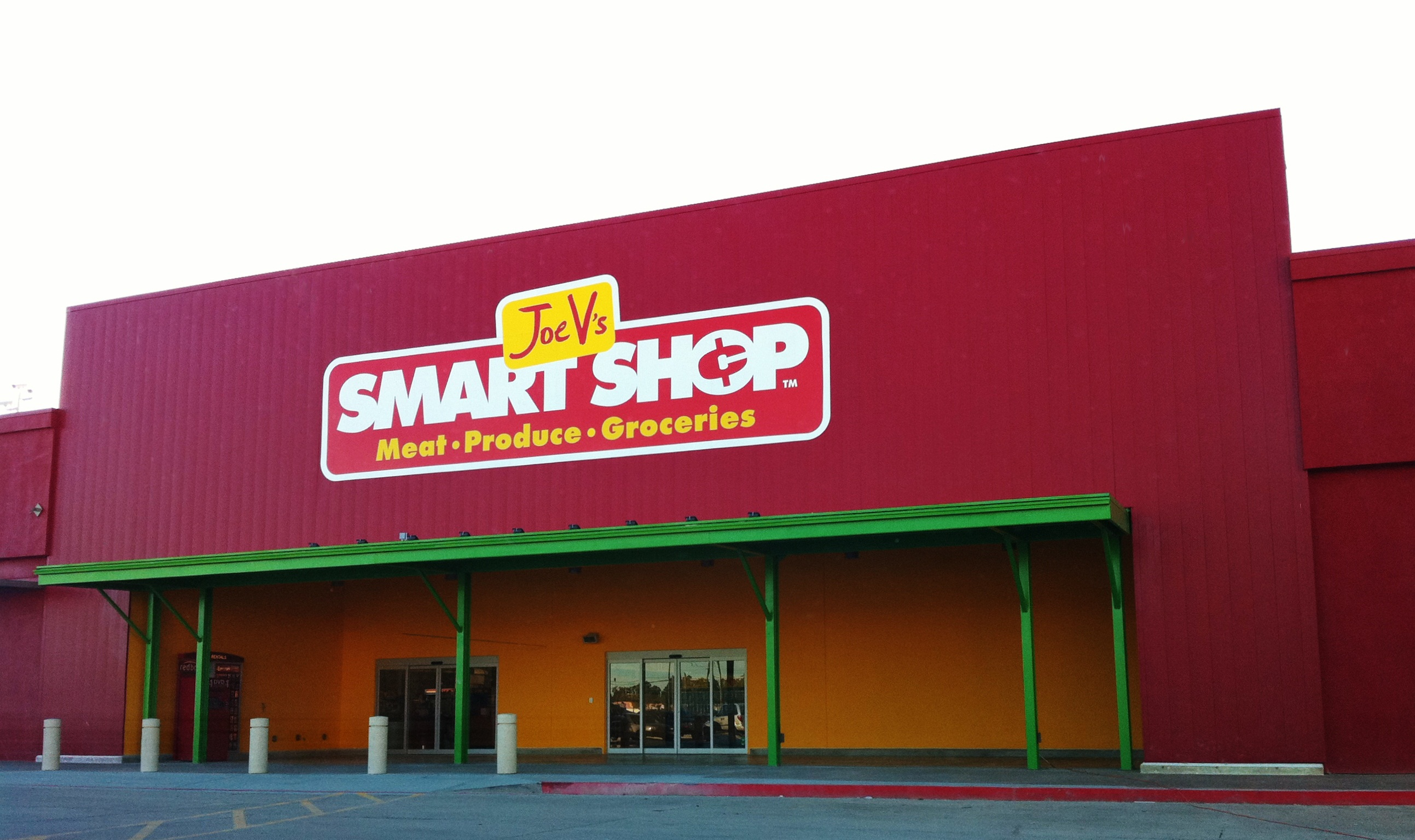 Second Joe V's Smart Shop location anchoring San Jacinto Plaza at the intersection of Uvalde Rd. and Wallisville Rd. in unincorporated northeast Houston.